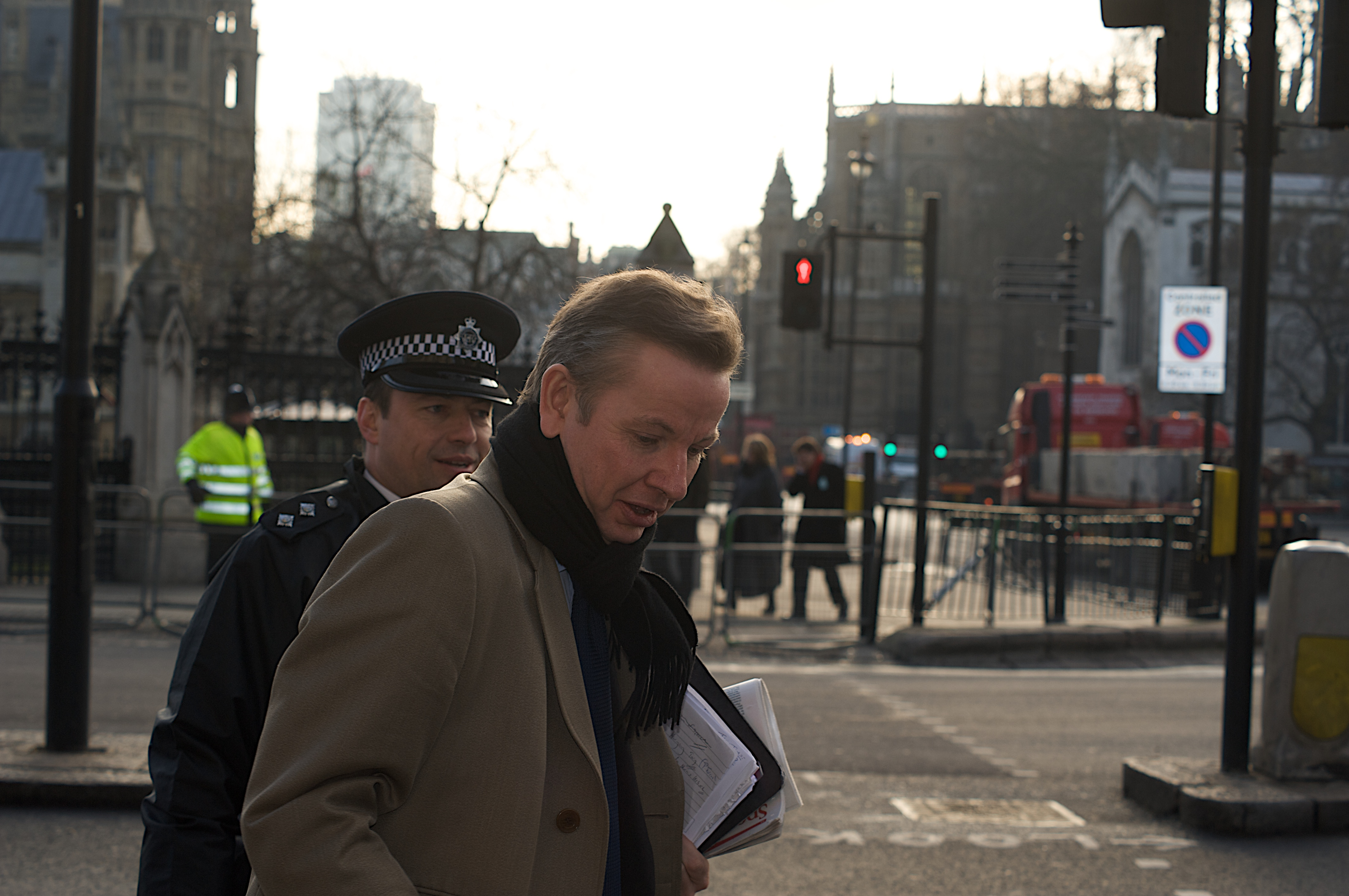 Michael Gove outside the Palace of Westminster